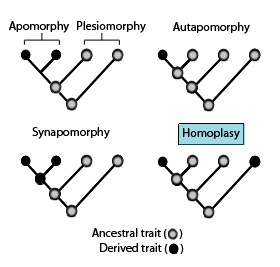 Adapted from Page, Roderic D.M. and Holmes, Edward C. Molecular evolution: a phylogenetic approach. Wiley-Blackwell, 1st edition, 1998.